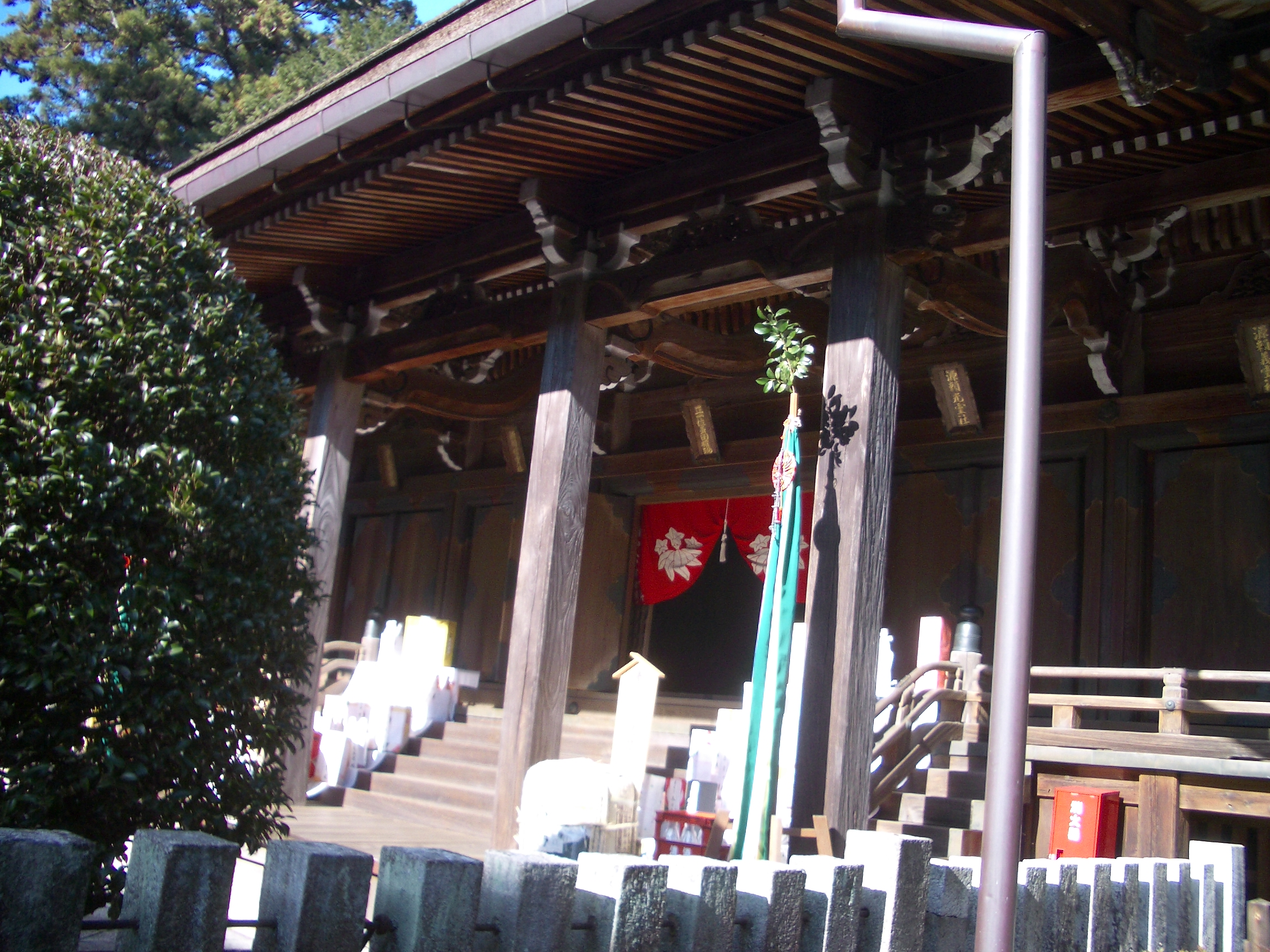 Tada Jinja, a Shinto Shrine, Hyogo Prefecture, Japan